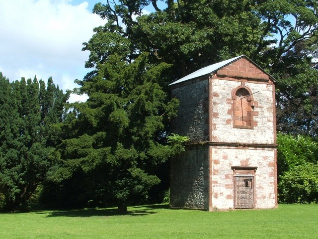 Doocot near Strathleven House. In the 1970s, before nearby Strathleven Estate had been built, this tower was hidden away in a dense tangled wood, and it was necessary to climb over low gnarled tree branches to reach it. The tower, which is close to Strathleven House (1058768), now stands in the open, with an area of grass in front of it, and a little pool behind. Although I had been informed that this was a game tower, where meat was hung to be tenderized, that isn't the case; instead, as described in the book "North Clyde Estuary - An Illustrated Architectural Guide" (Frank Arneil Walker with Fiona Sinclair), this is "a doocot, early 18th century, a two-storey square structure pedimented on the north and south. The upper chamber, containing stone nesting boxes, sits on a vaulted ground floor".